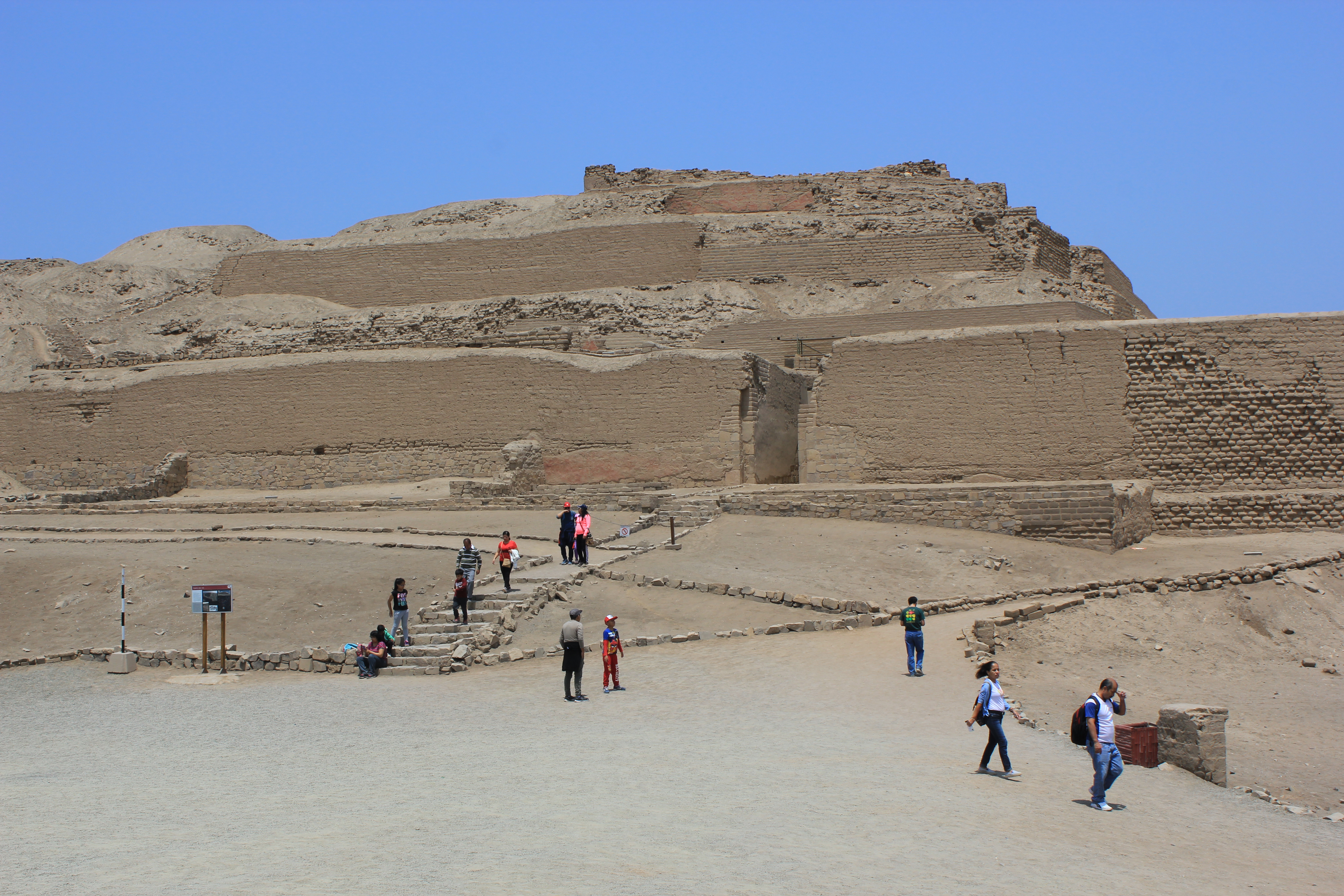 Pachacamac (Quechua: Pachakamaq) is an archaeological site 40 kilometres (25 mi) southeast of Lima, Peru in the Valley of the Lurín River. The site was first settled around A.D. 200 and was named after the "Earth Maker" creator god Pacha Kamaq. The site flourished for about 1,300 years until the Spanish invaded. Pachacamac covers about 600 hectares of land.